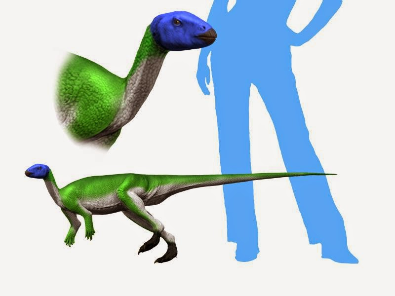 Life restoration of Lesothosaurus diagnosticus (Galton, 1978)